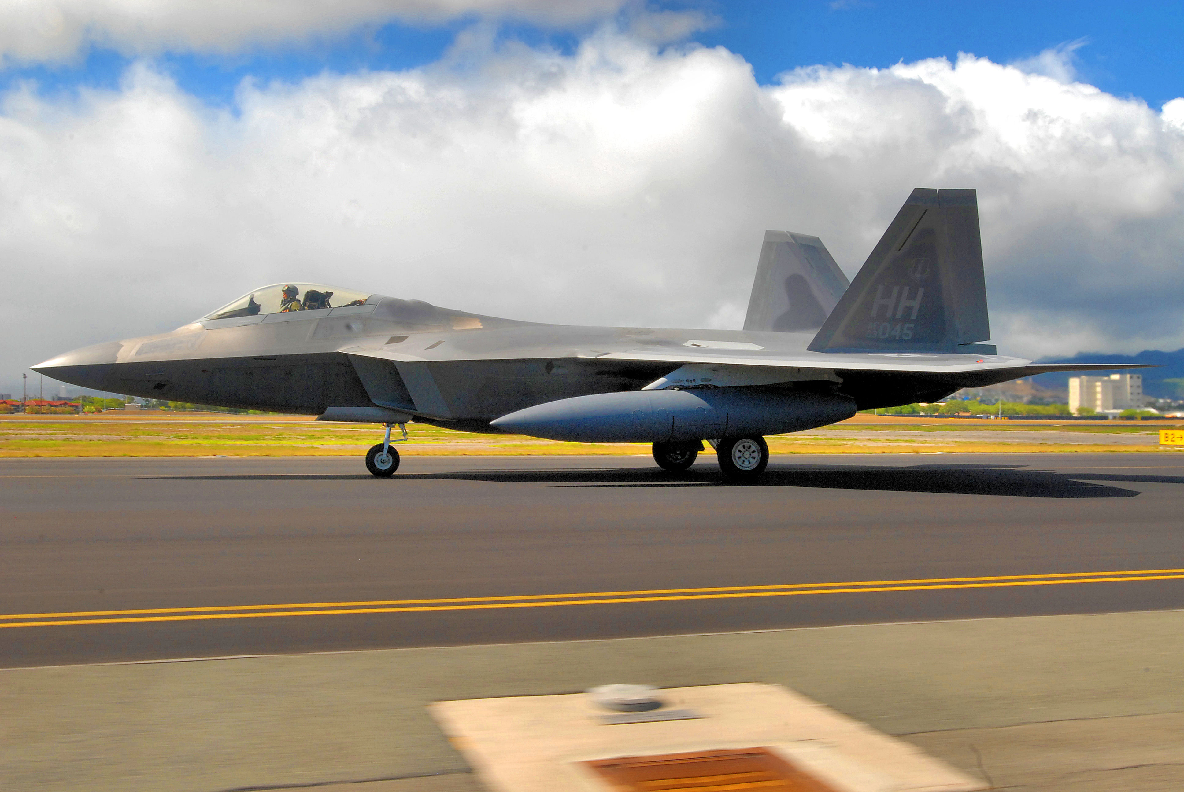 JOINT BASE PEARL HARBOR HICKAM, Hawaii. The F-22 Raptor lands here, July 2. The 199th Fighter Squadron of the Hawaii Air National Guard is transitioning from the F-15 and will serve as the only Air National Guard led joint Guard and Active Duty squadron in the Pacific and the second in the U.S. Air Force. (U.S. Air Force photo/Staff Sgt. Mike Meares)